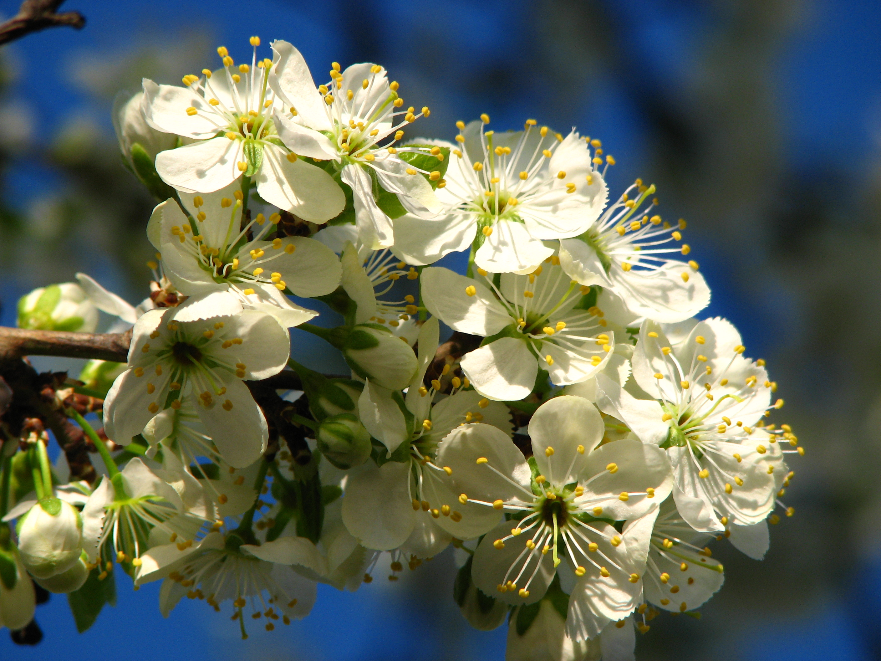 Orchards in park Tsaritsyno in Moscow.